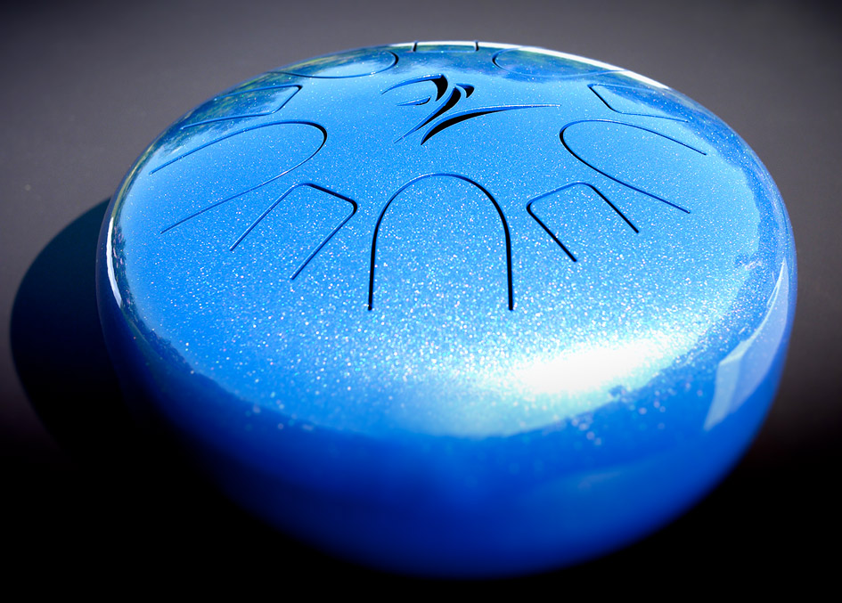 Zefiro - Hank Drum (Steel Tongue Drum) made in Italy.